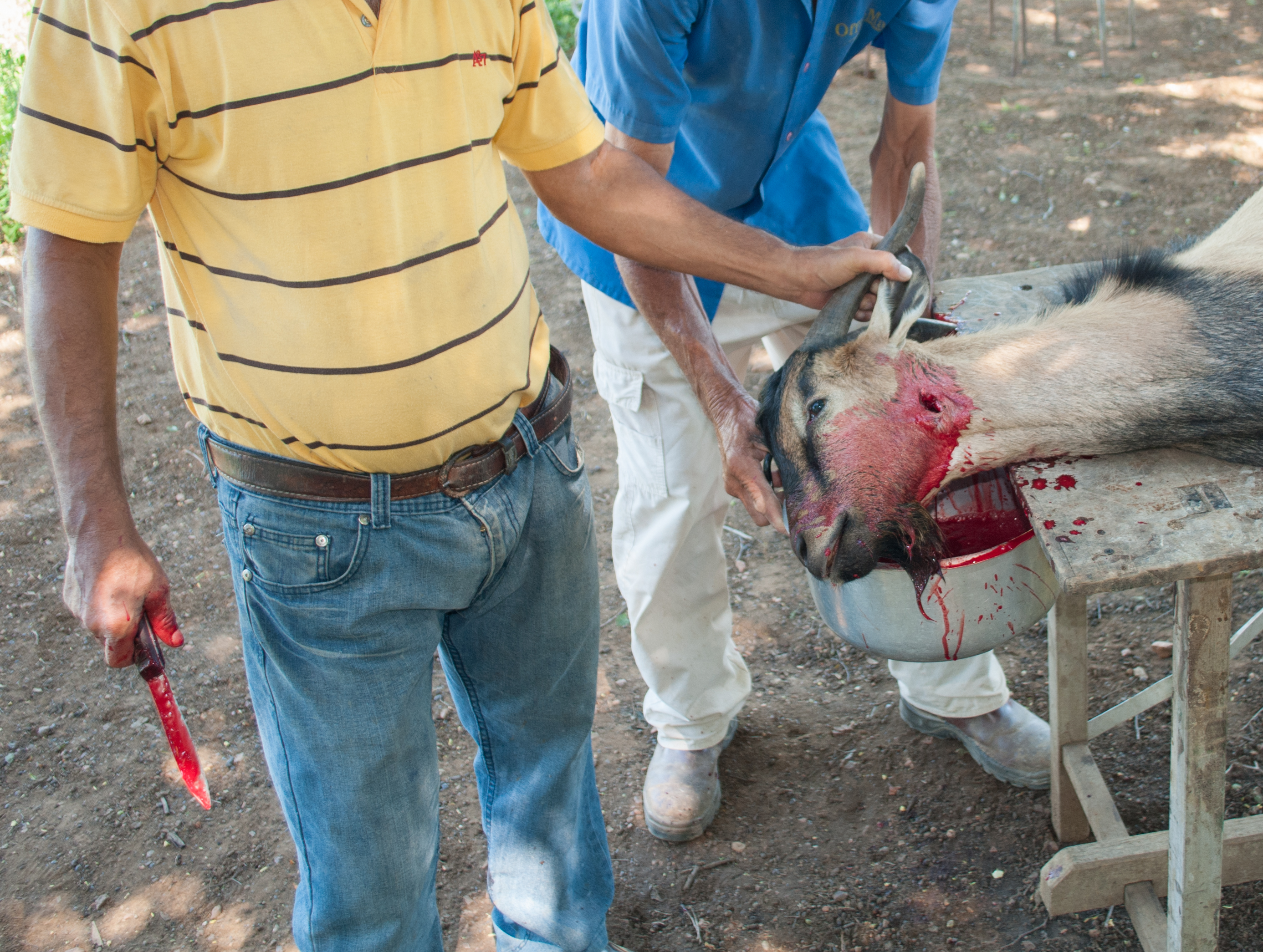 Christmas Goat